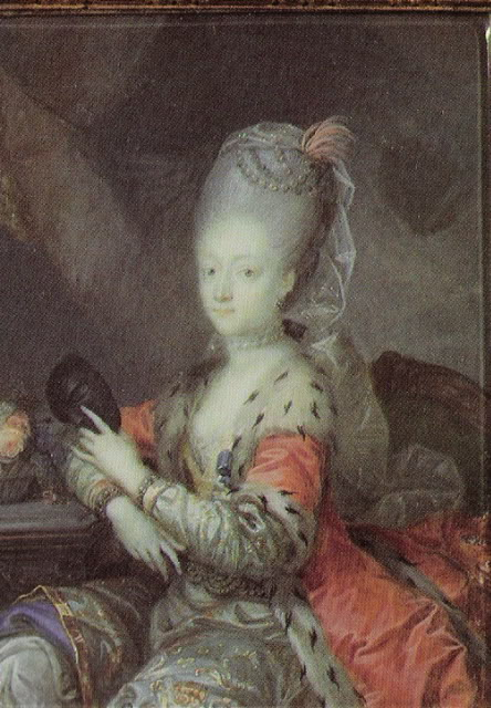 Portrait of Princess Louise of Denmark (1750–1831)